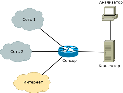 NetFlow architecture in russian